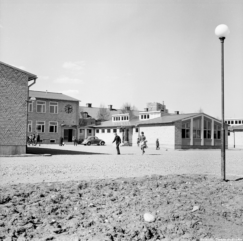 The school Sveaskolan, Örebro, Sweden